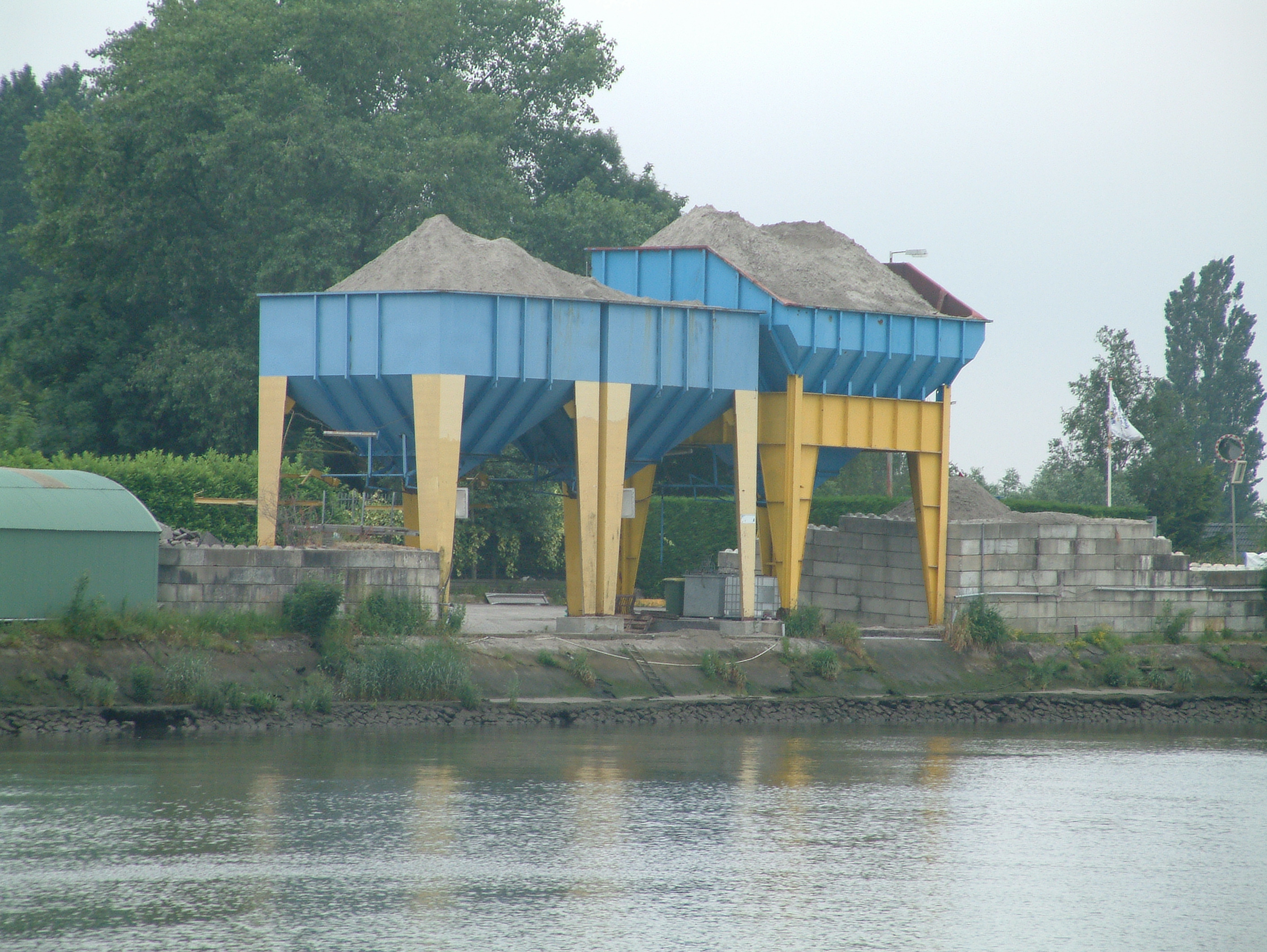 Funnels for sand and gravel transport